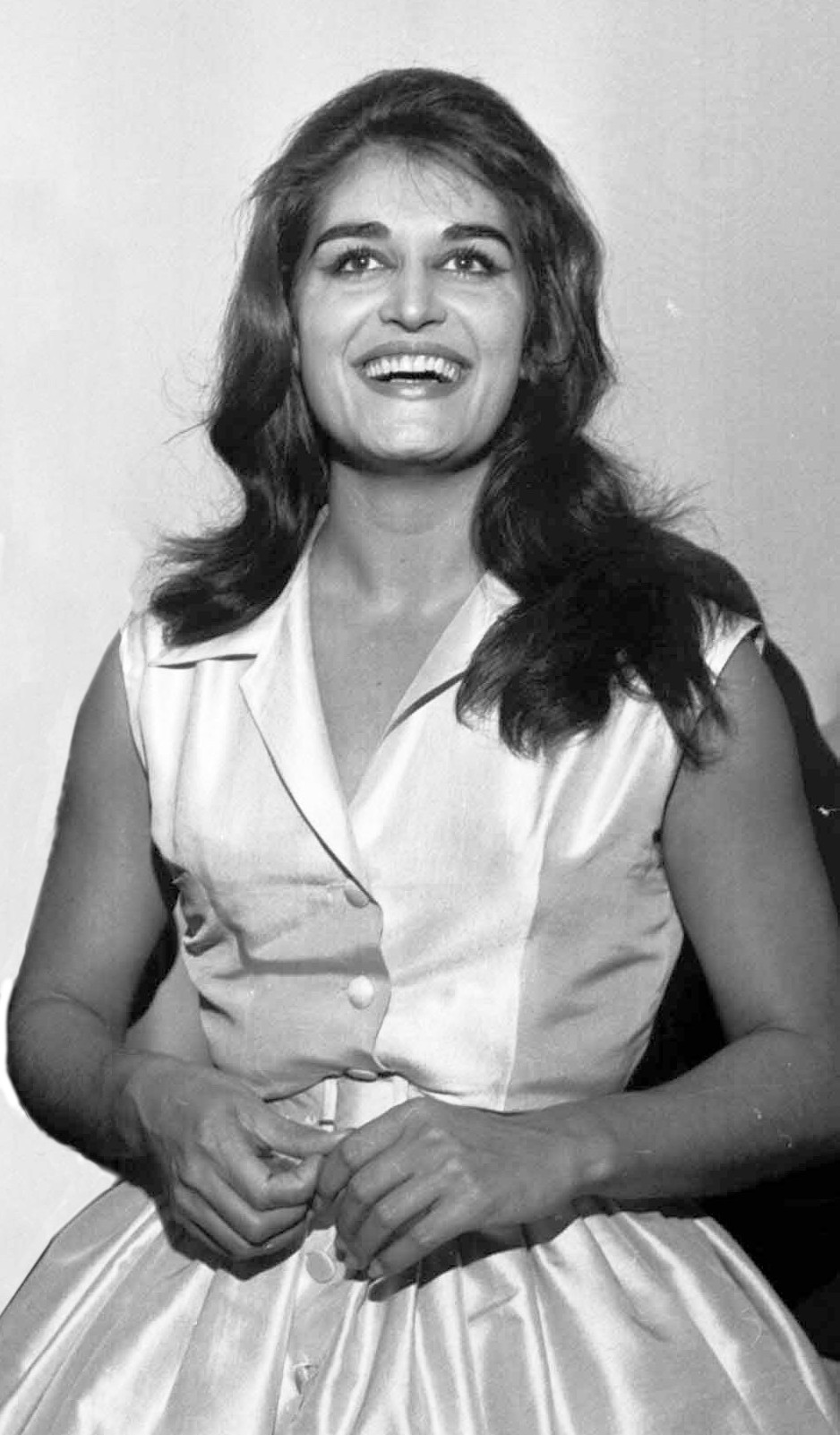 French-Italian singer Dalida